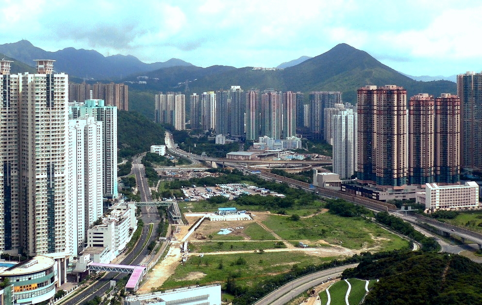 HK Tseung Kwan O